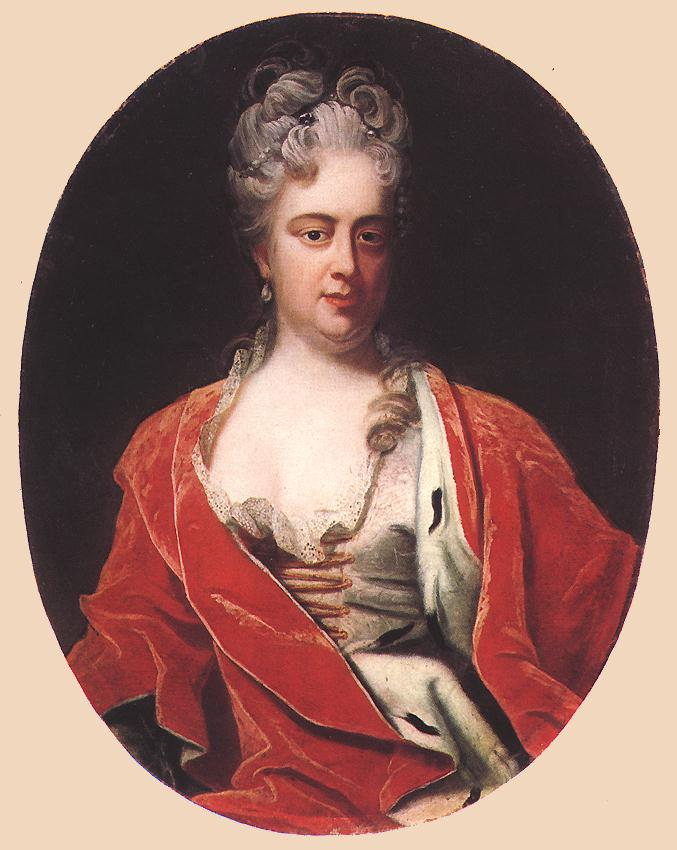 Princess Charlotte Amelie of Hesse-Wanfried (1679–1722), princess of Transylvania, daughter of Charles, Landgrave of Hesse-Wanfriedlabel QS:Len,"Princess Charlotte Amelie of Hesse-Wanfried (1679–1722), princess of Transylvania, daughter of Charles, Landgrave of Hesse-Wanfried" label QS:Lde,"Prinzessin Charlotte Amalie von Hessen-Wanfried (1679–1722), Fürstin von Siebenbrügen." label QS:Lhu,"Sarolta Amália hessen–wanfriedi hercegnő (1679–1722), Erdély fejedelemnéje."